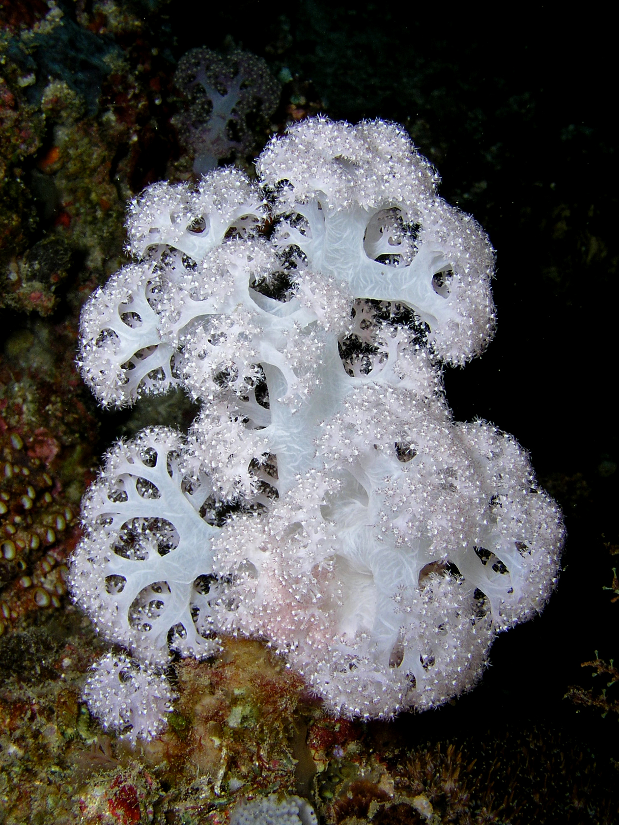 Dendronephthya soft coral from North coast East Timor.